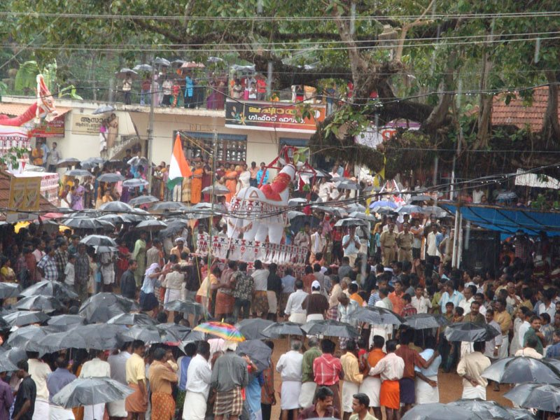 Aswathy Ulsavam - even in the rain the crowd is anxious to see the Kettukazhcha